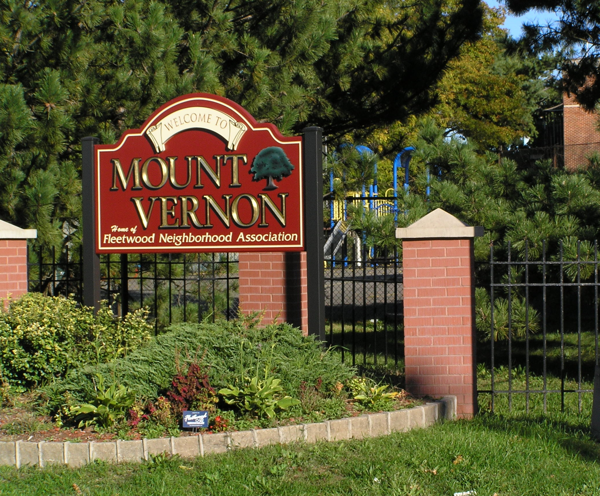 This photograph was taken at the entrance ramp to the Cross County Parkway in the Fleetwood neighborhood of Mount Vernon, NY. The sign welcomes people to the Fleetwood section of the city.